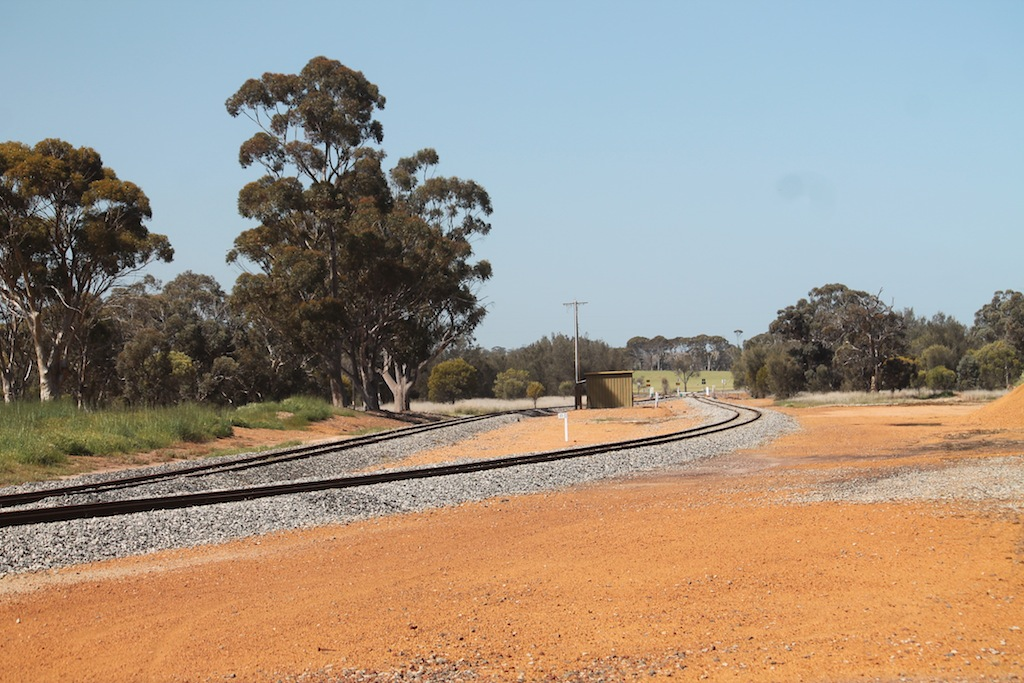 Yilliminning Western Australia - railway yard 2013